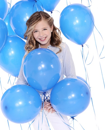 Photo of Jackie Evancho for promotional purposes